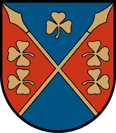 Coat of arms of the former municipality of Murfeld, Styria